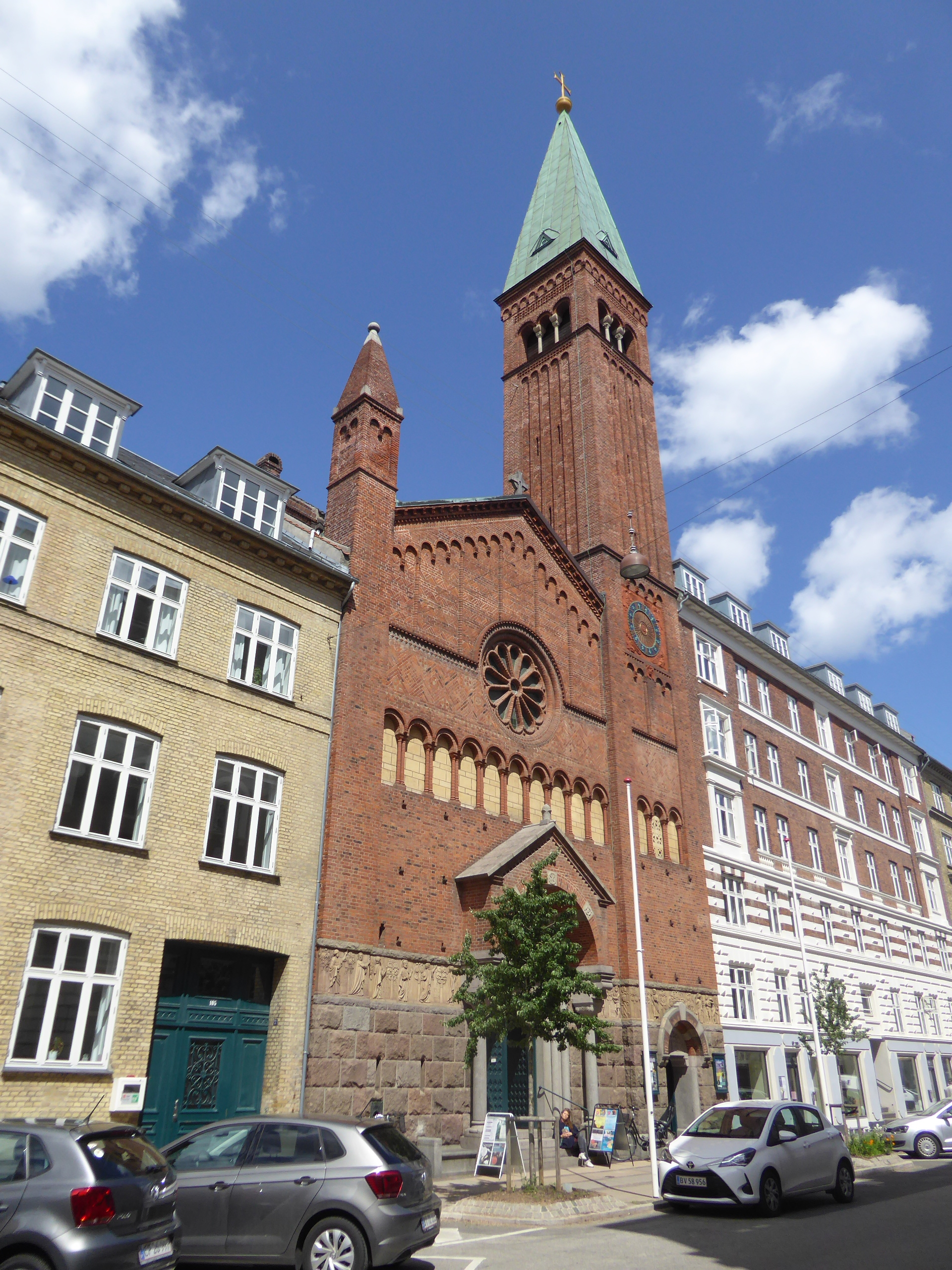 Nazaret Kirke at Ryesgade in Østerbro in Copenhagen.